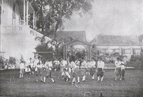 Royal Ladies playing croquet within the Inner Court of the Grand Palace, Bangkok.